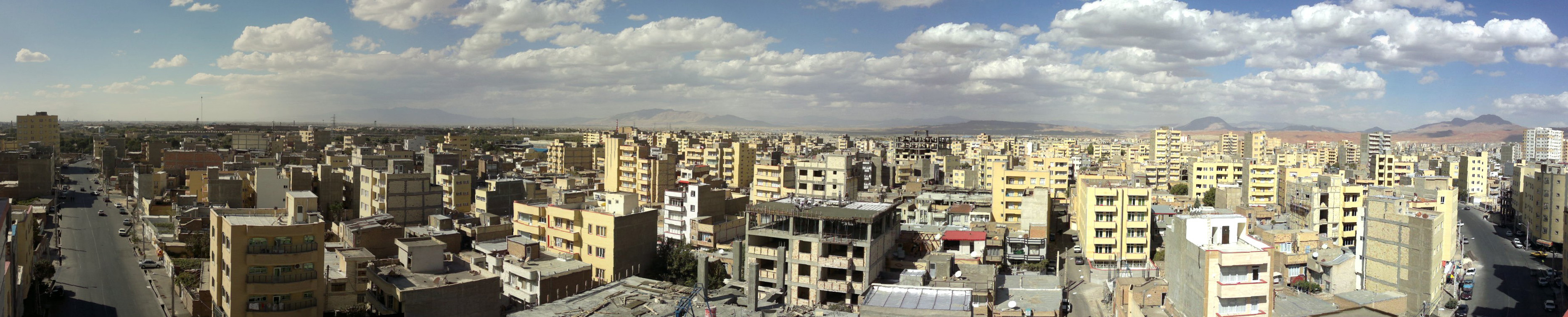 View of the northern part of modern Shanbeghazan. Photographer : Mehran B. Ghazani